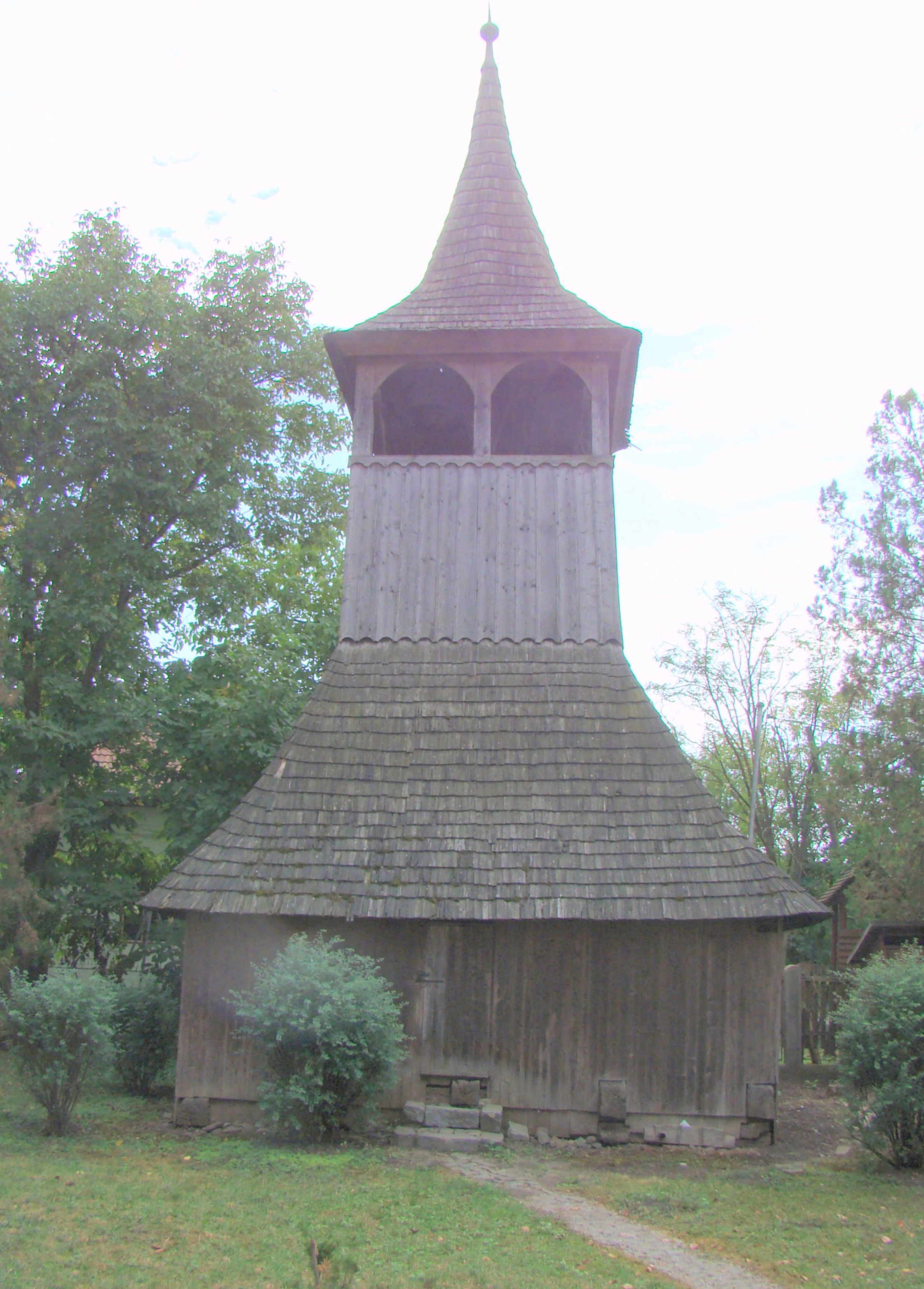 Bell tower of the reformed church in Periș, Mureş county, Romania 02